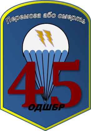 Shoulder Sleeve Insignia of 45th Separate Air-Assault Brigade